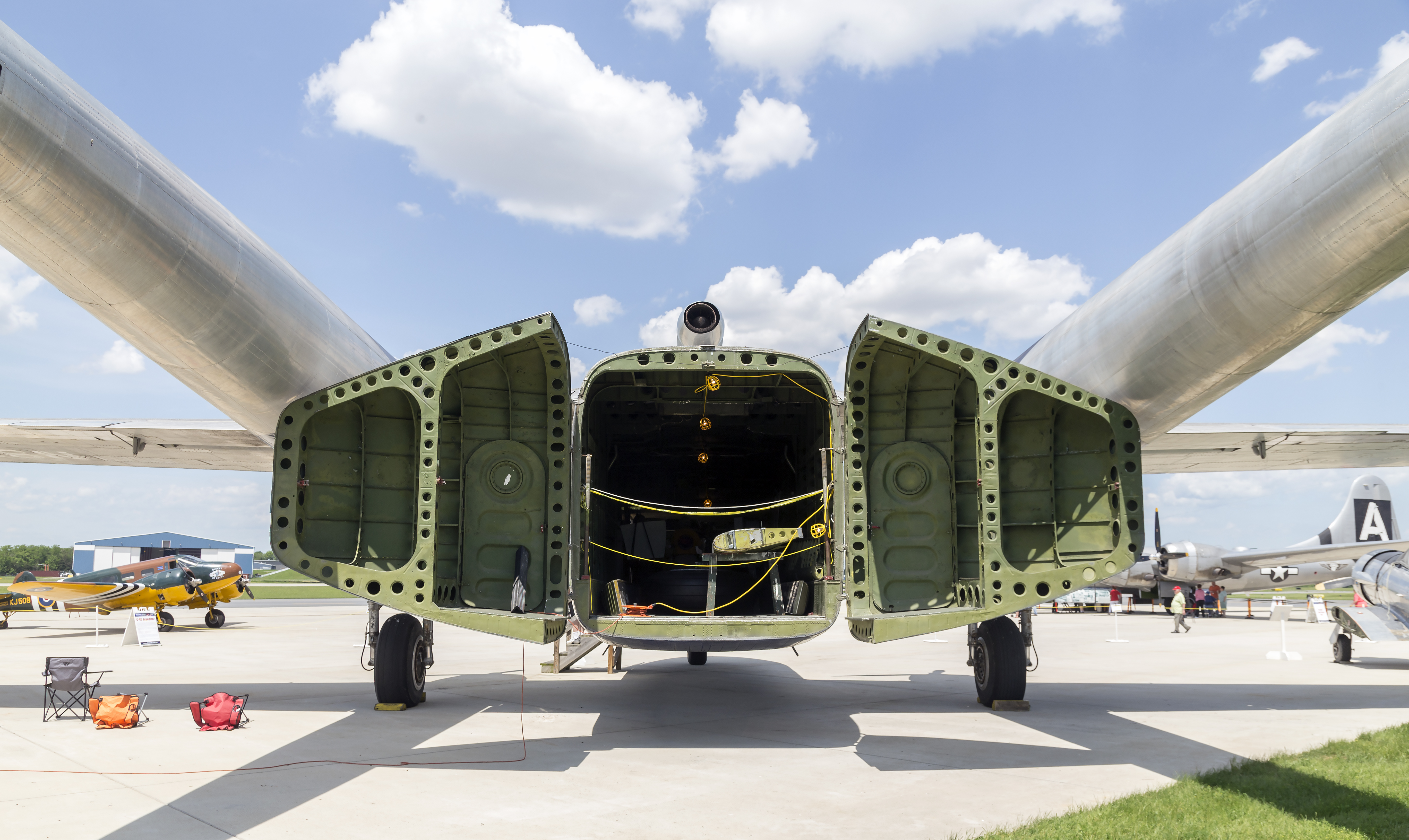 Fairchild C-82 Packet N9071F/45-57814 with rear doors open at Hagerstown, Maryland, USA